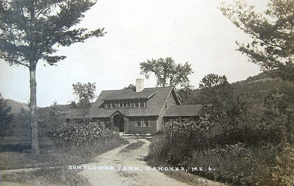 Sunflower Farm, Hanover, ME; from a c. 1915 postcard published by the Eastern Illustrating Co. of Belfast, Maine.